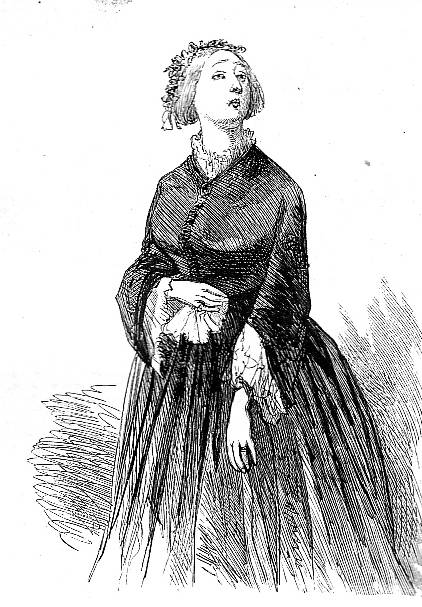 Little Dorrit, Mrs General's Elocution lesson